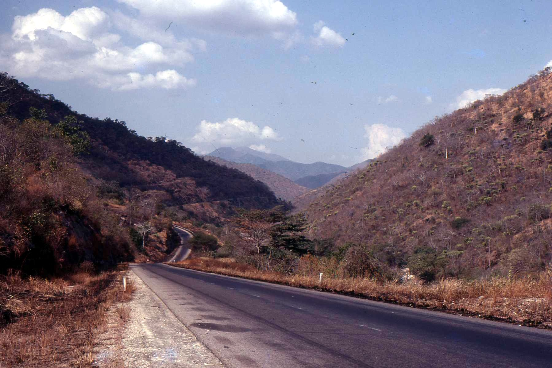 Road between Iringa and Mikumi